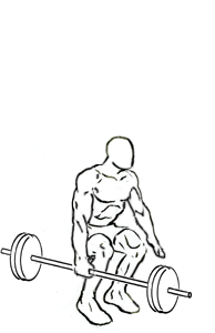 an exercise of lower back and forearm